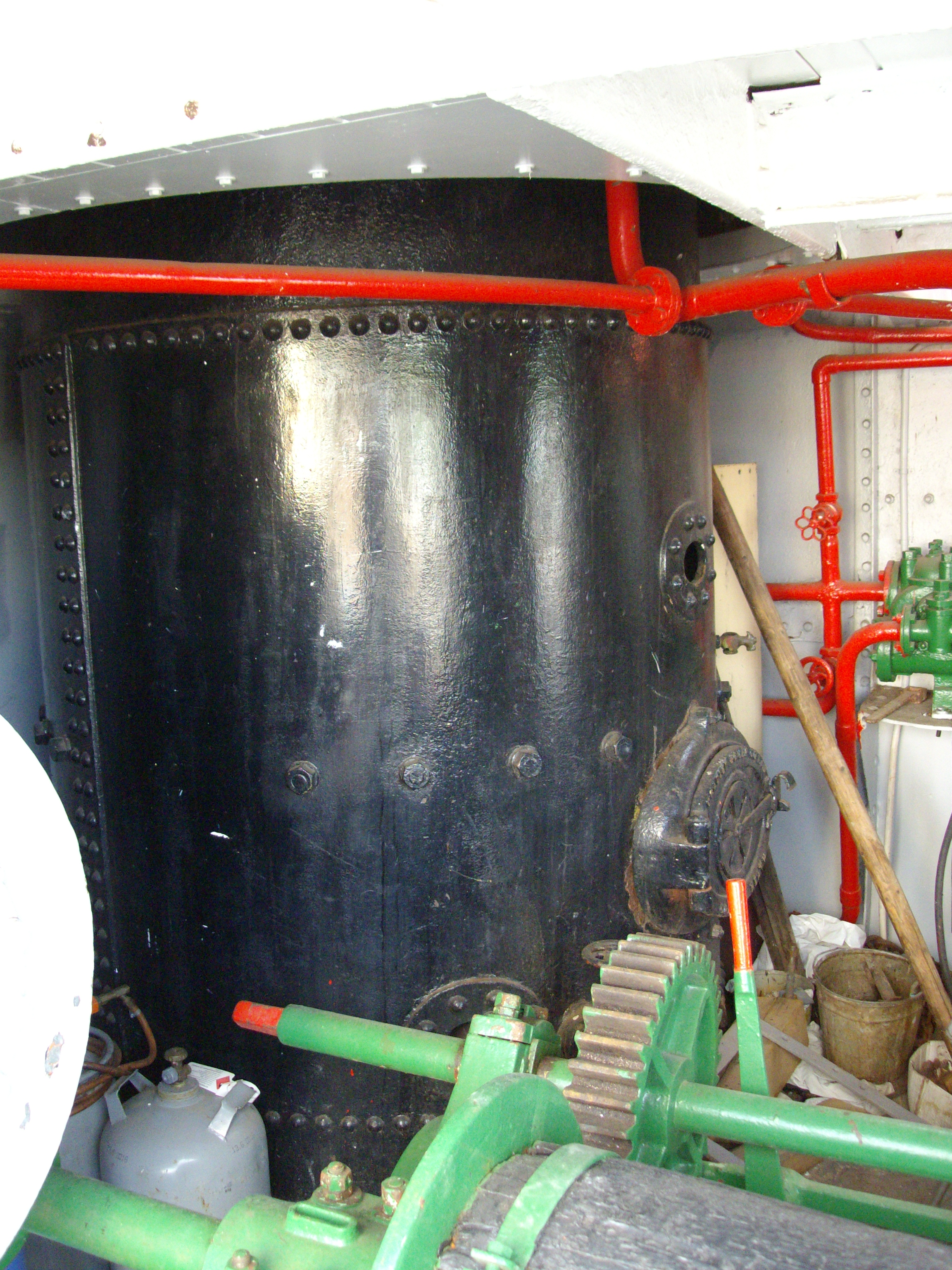 Donkey Boiler (part of auxliary steam engine) on deck of the museum ship Pommern (Mariehamn, Åland)